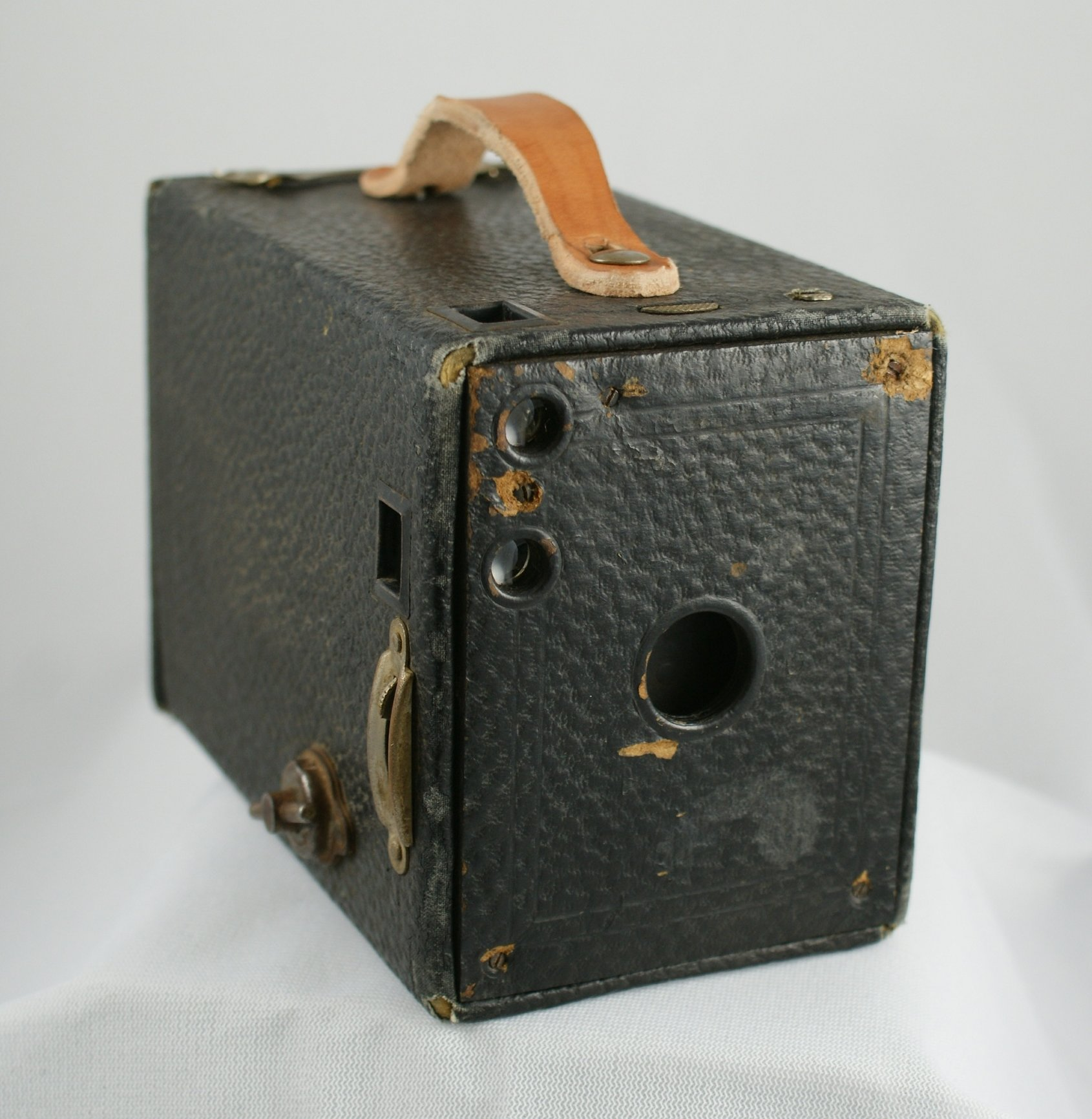 Playing with my new light box.